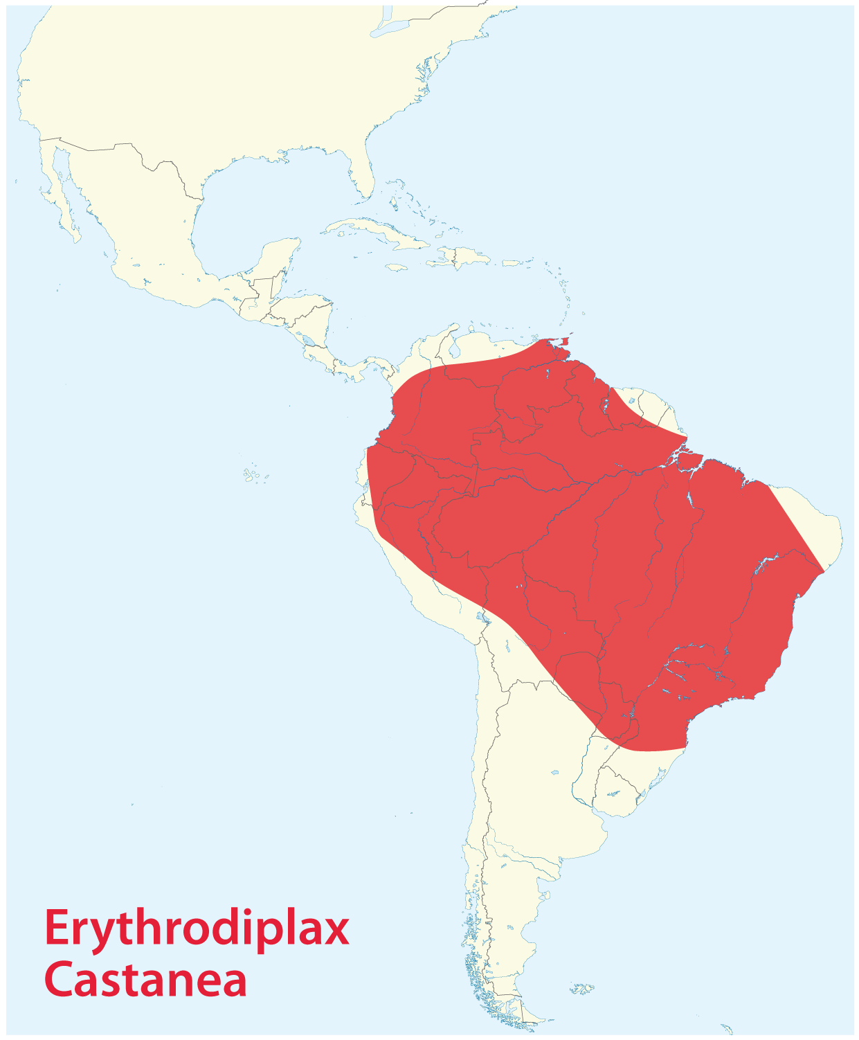 Distribution map of Erythrodiplax Castanea